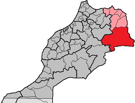 Location of the province Figuig within the region Oriental, Morocco. In total, Morocco has 16 regions, subdivided into 62 provinces and 13 prefectures.